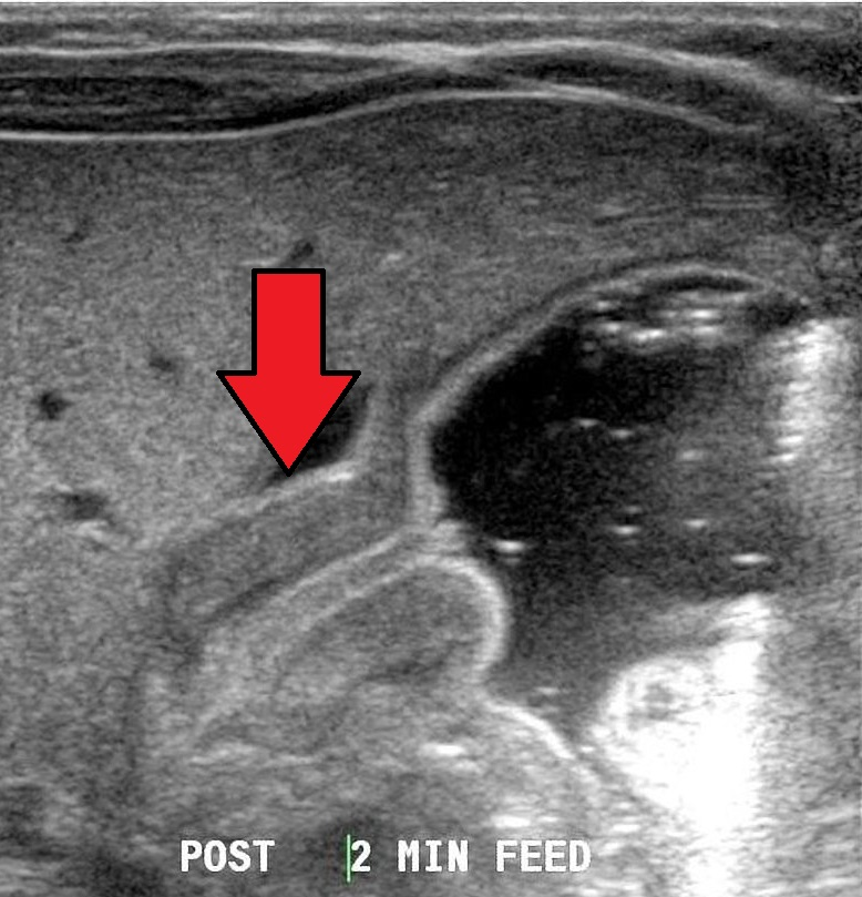 Pyloric stenosis as seen on ultrasound in a 6 week old Derivative works of this file: PyloricStenosisUS.jpg